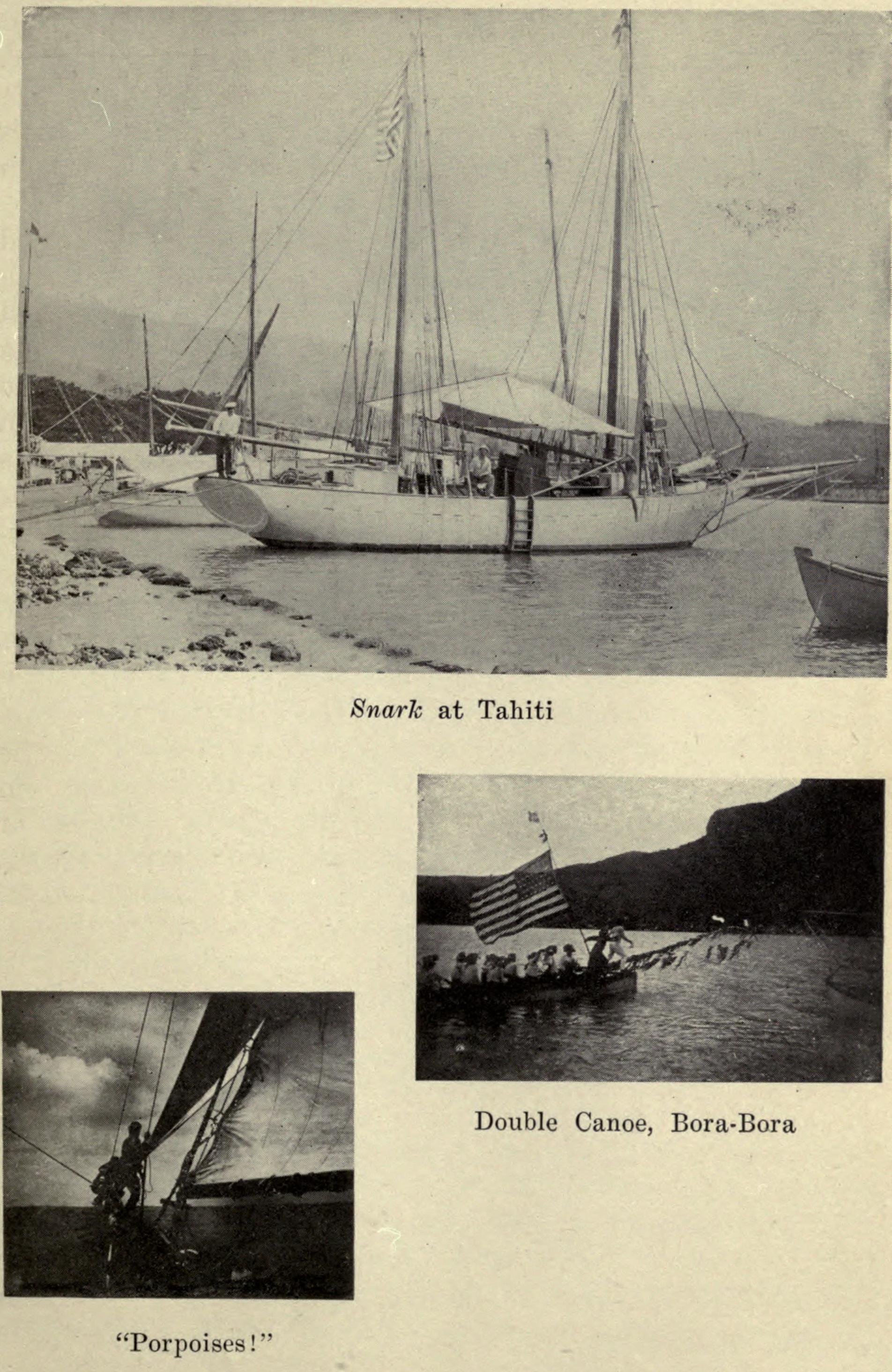 Charmian London, The log of the Snark, 1915 ː Snark at Tahiti ; Double canoe at Bora-Bora ; Porpoises ǃ